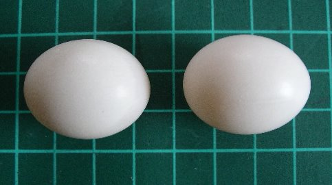 Two Barbary Dove (Streptopelia risoria) eggs on a grid of 1cm squares.